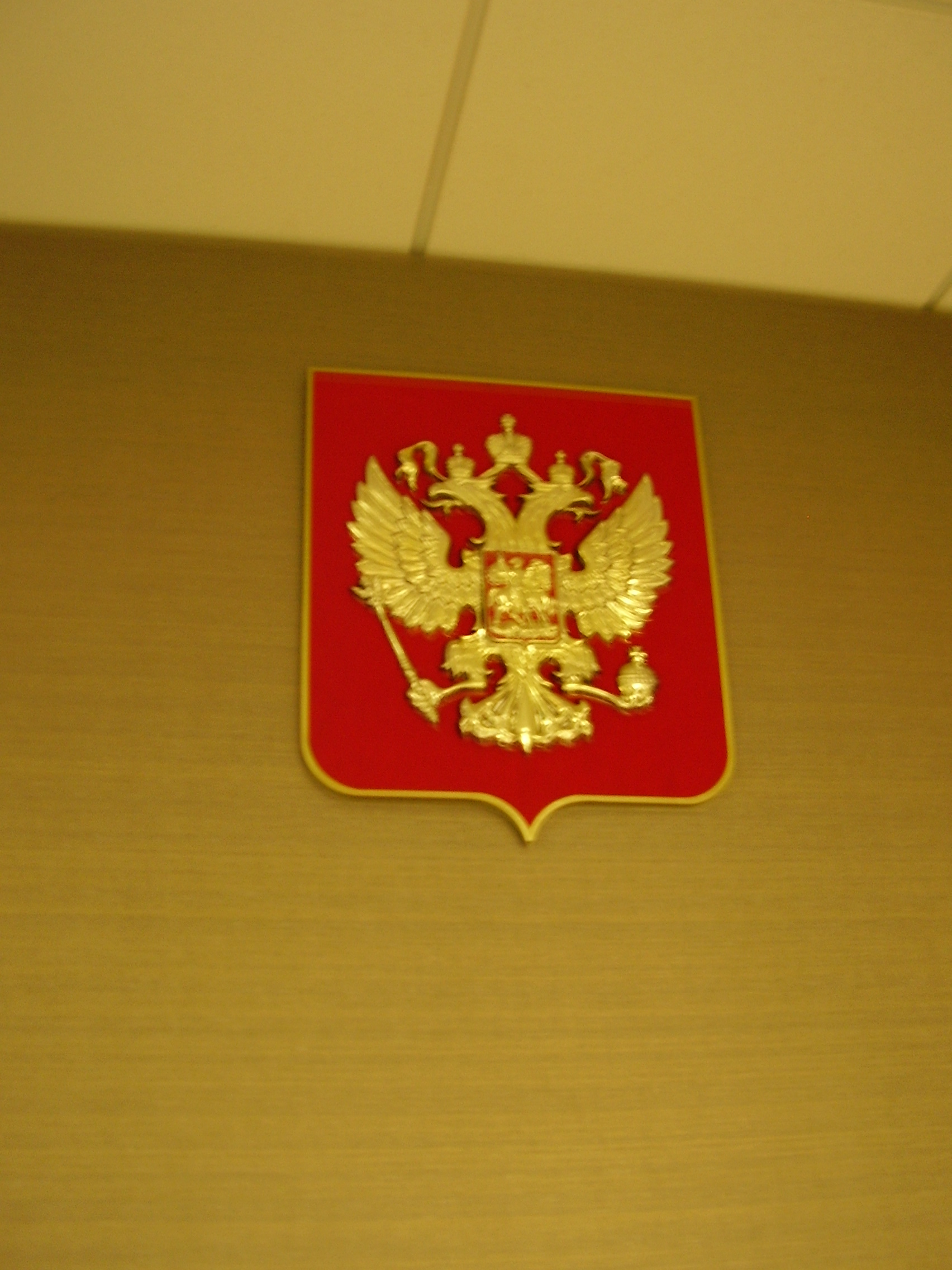 The Coat of Arms of Russia, seen in the Consulate-General of Russia in Houston